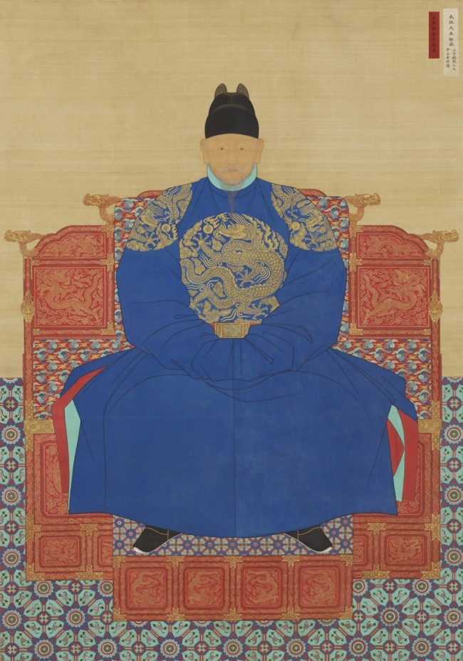 Taejo of Joseon. Ink and colors on silk, 150cm wide and 218cm high. King Taejo had a total of 26 official portraits enshrined in many parts of his kingdom. Unfortunately, all these portraits have disappeared except the one currently hung in Gyeonggijeon Shrine in Jeonju.